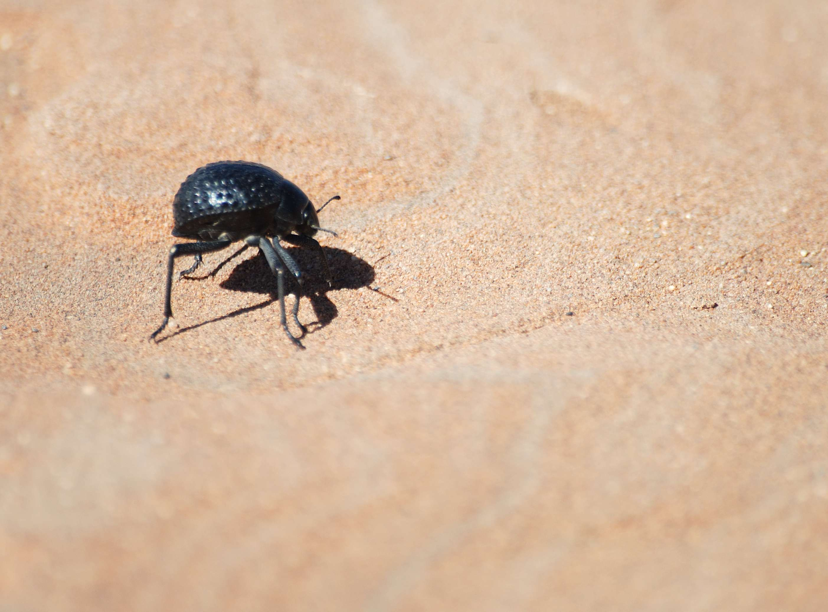 Namib desert beetle (possibly of genus Onymacris or Stenocara), in Sossusvlei, Namib desert